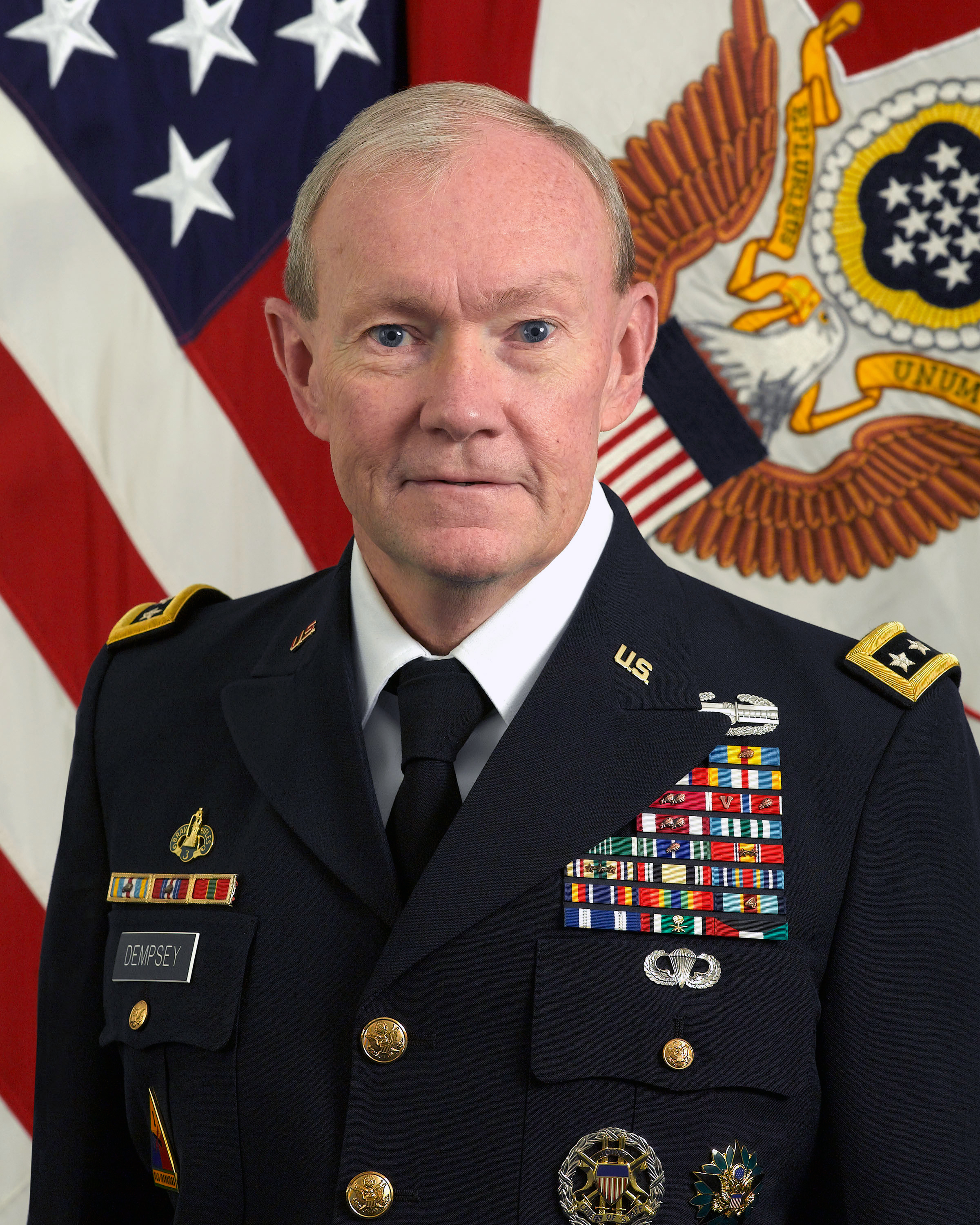 General Martin E. Dempsey, USA37th Chief of Staff of the Army.